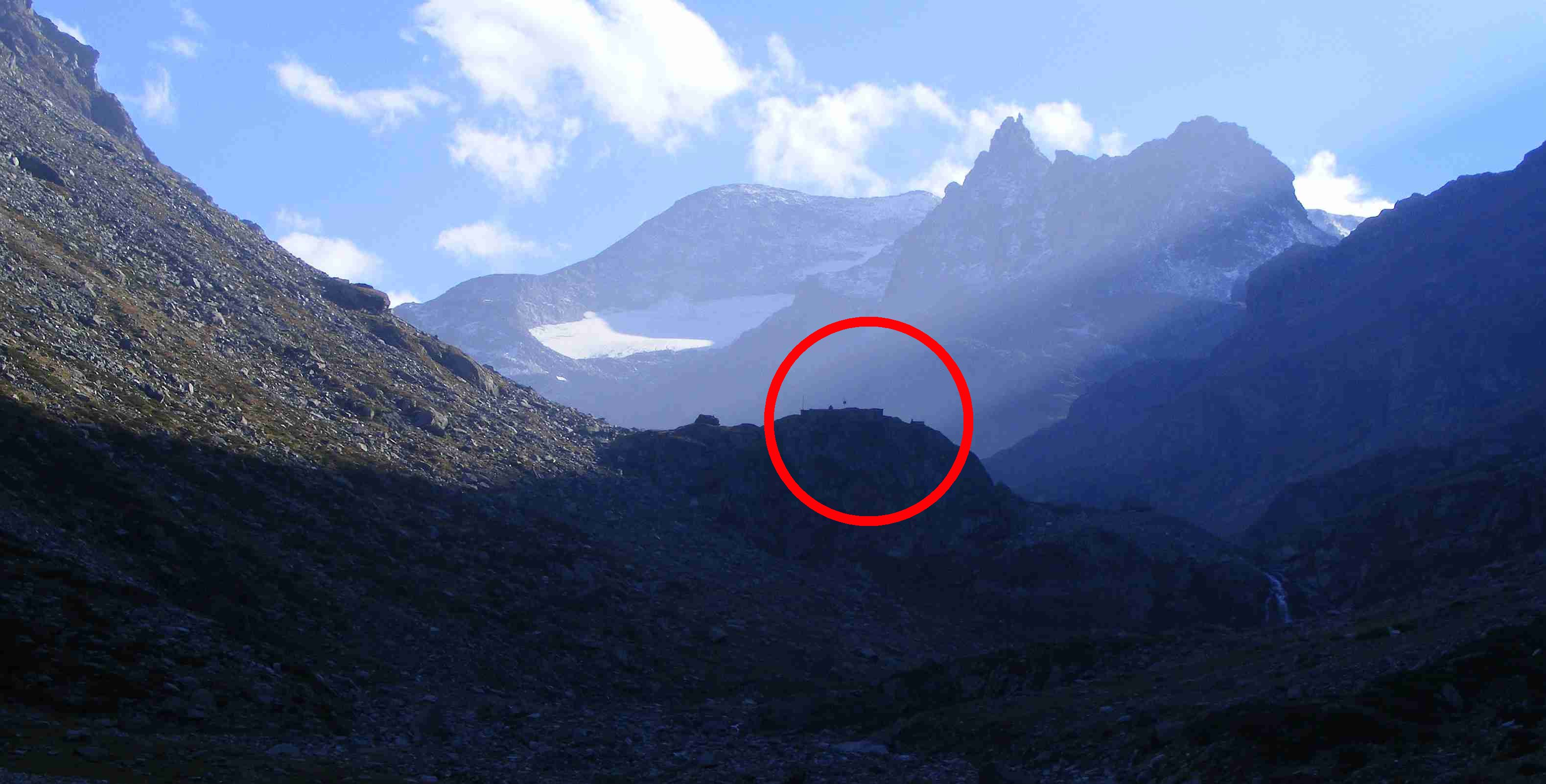 Location of Refuge d'Ambin; on the background Pointe d'Ambin (3.266 m, centre) and Grand Cordonnier (3.086 m, right)